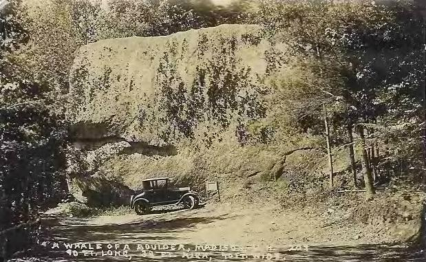 Madison Boulder in c. 1922, Madison, NH; from an old postcard.